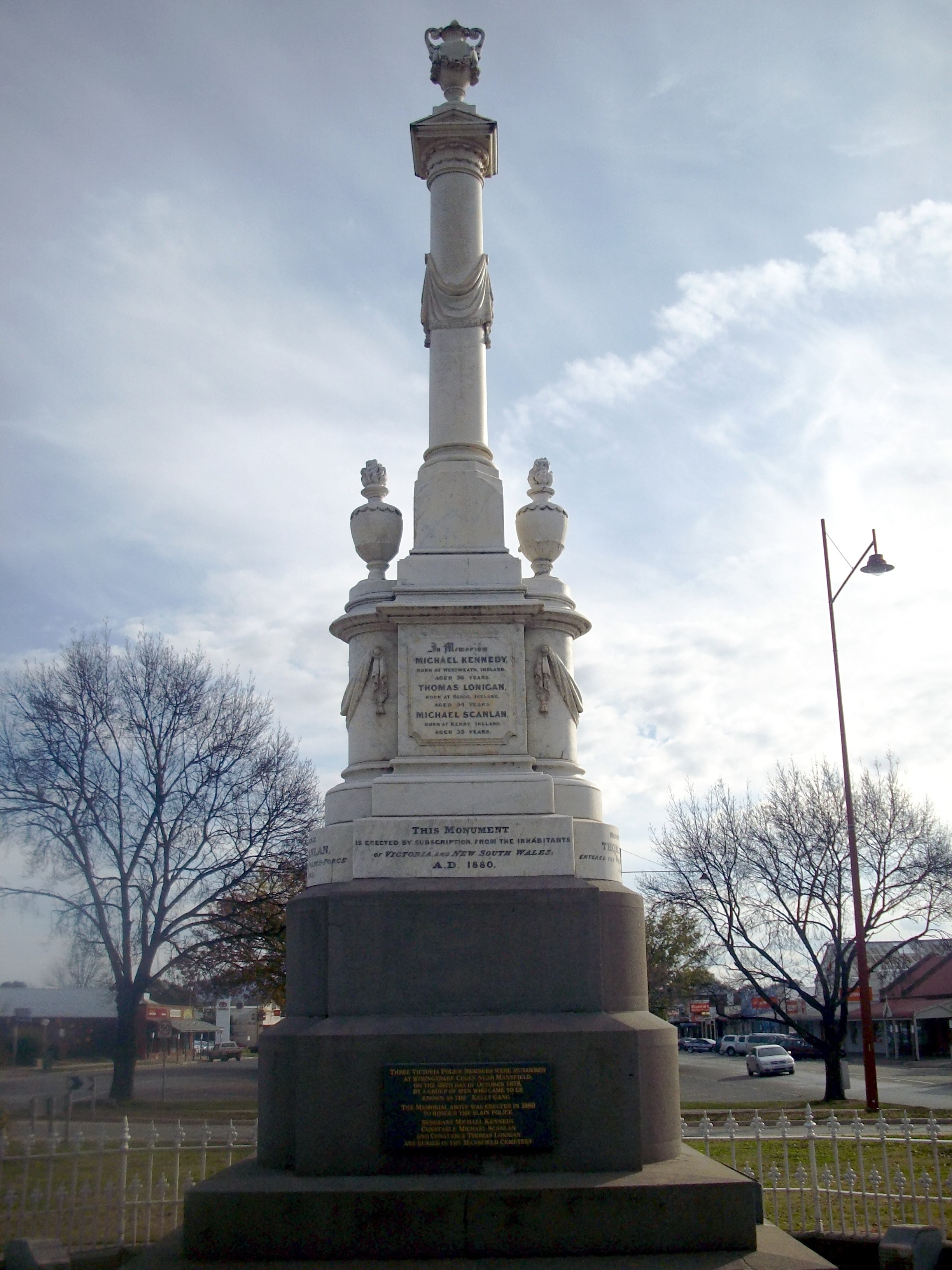 Monument to the policemen killed by Ned Kelly; erected at Mansfield, Victoria